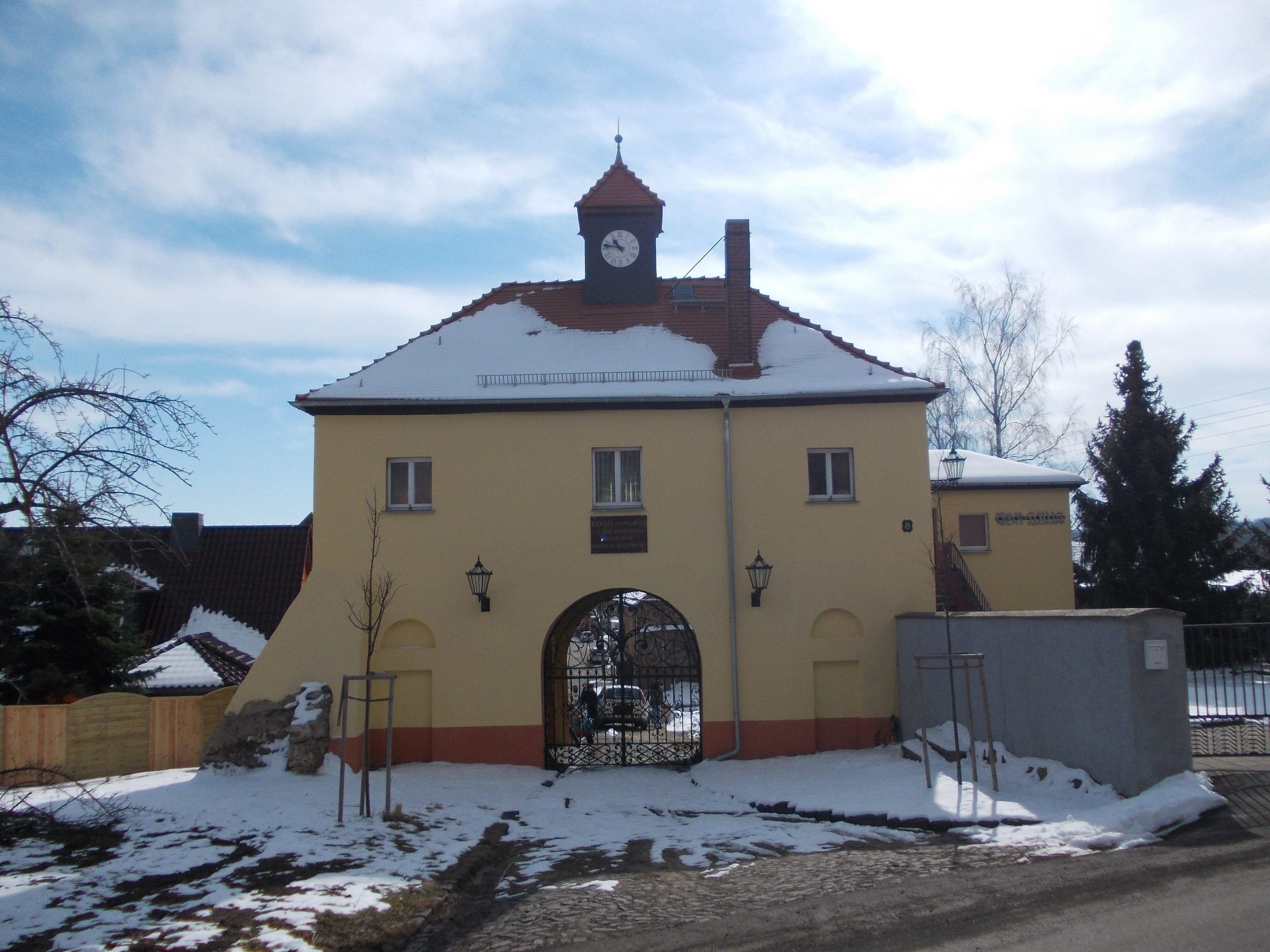 Gateway of Böhlen estate in the Hohnstädt quarter of Grimma 8Leipzig district, Saxony)